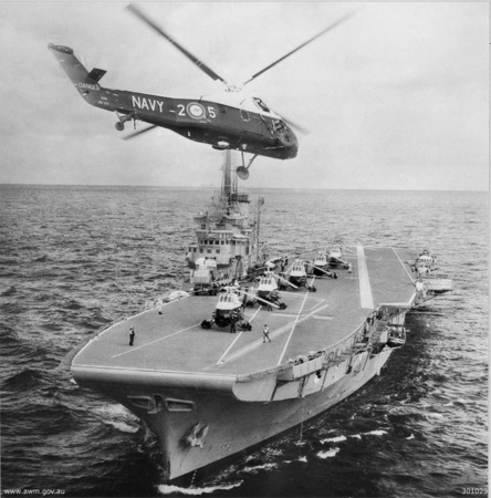 The Australian aircraft carrier HMAS Melbourne (R21) in the 1960s. Five Westland Wessex HAS.31A helicopters are on the flight deck. In the foreground another Wessex (s/n WA215) banks away. Note the dipping sonar housed underneath its fuselage.